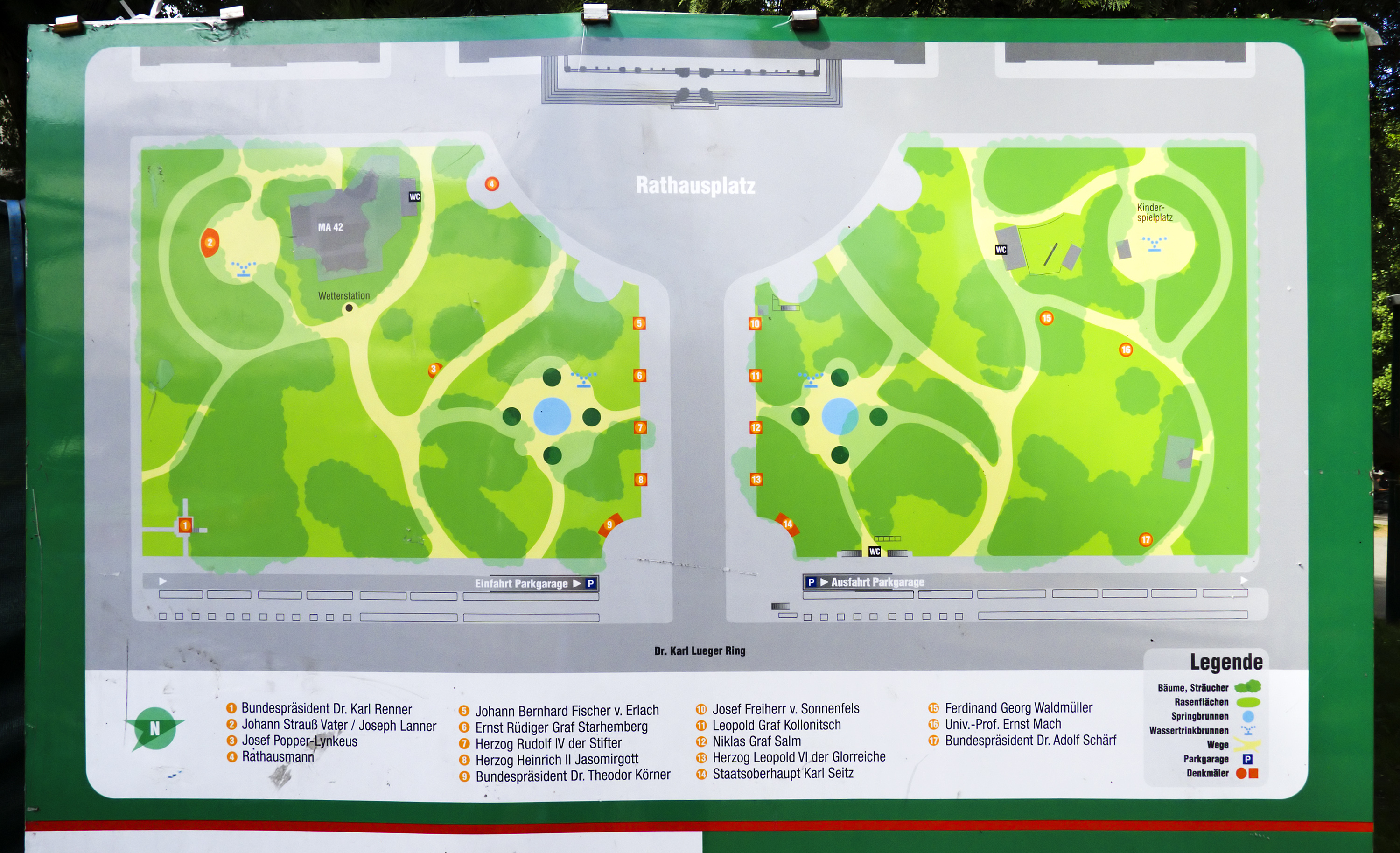 Park at Rathausplatz (Wien), Map, Vienna 1